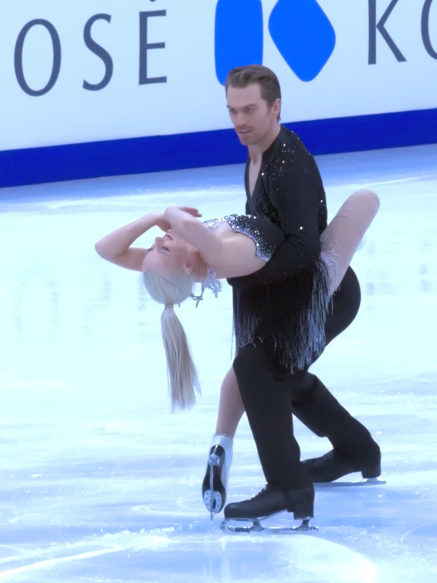 Penny Coomes & Nicholas Buckland at the 2018 European Figure Skating Championships in Moscow